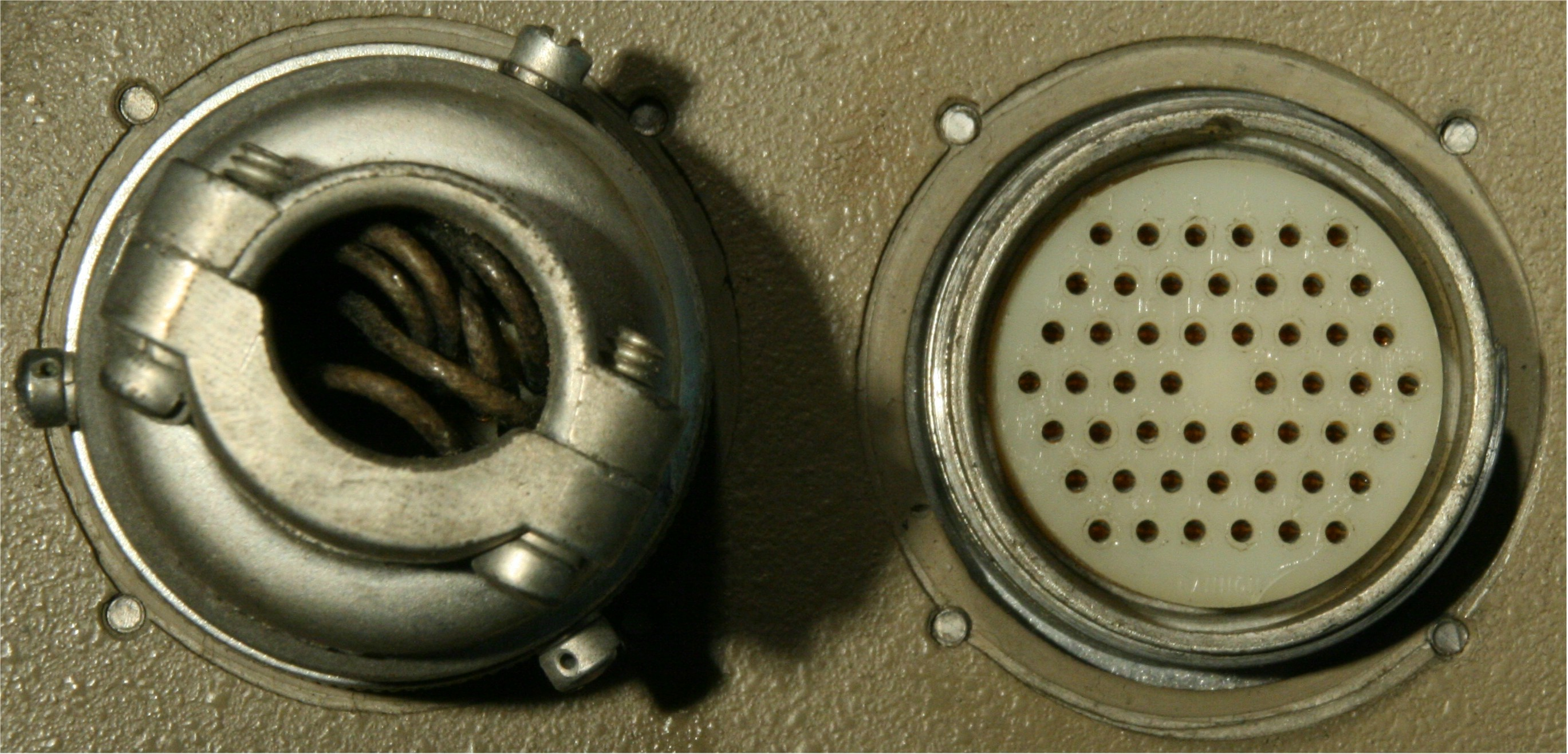 Friden Flexowriter, close-up of the two large 50-way connectors on the right side of a typical machine, to the rear (right of photo) is the JL1 input socket, in front of this (left of photo) is JL2 output connector with its Cannon plug in place